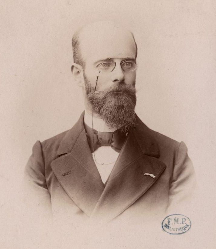 Edgar Berillon (1859-1948), French psychologist